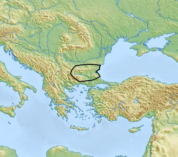 Map of the Ezero culture, based on a map printed at page 189 in Encyclopedia of Indo-European Culture, which was edited by J. P. Mallory and Douglas Q. Adams, and published by Taylor & Francis in 1997.